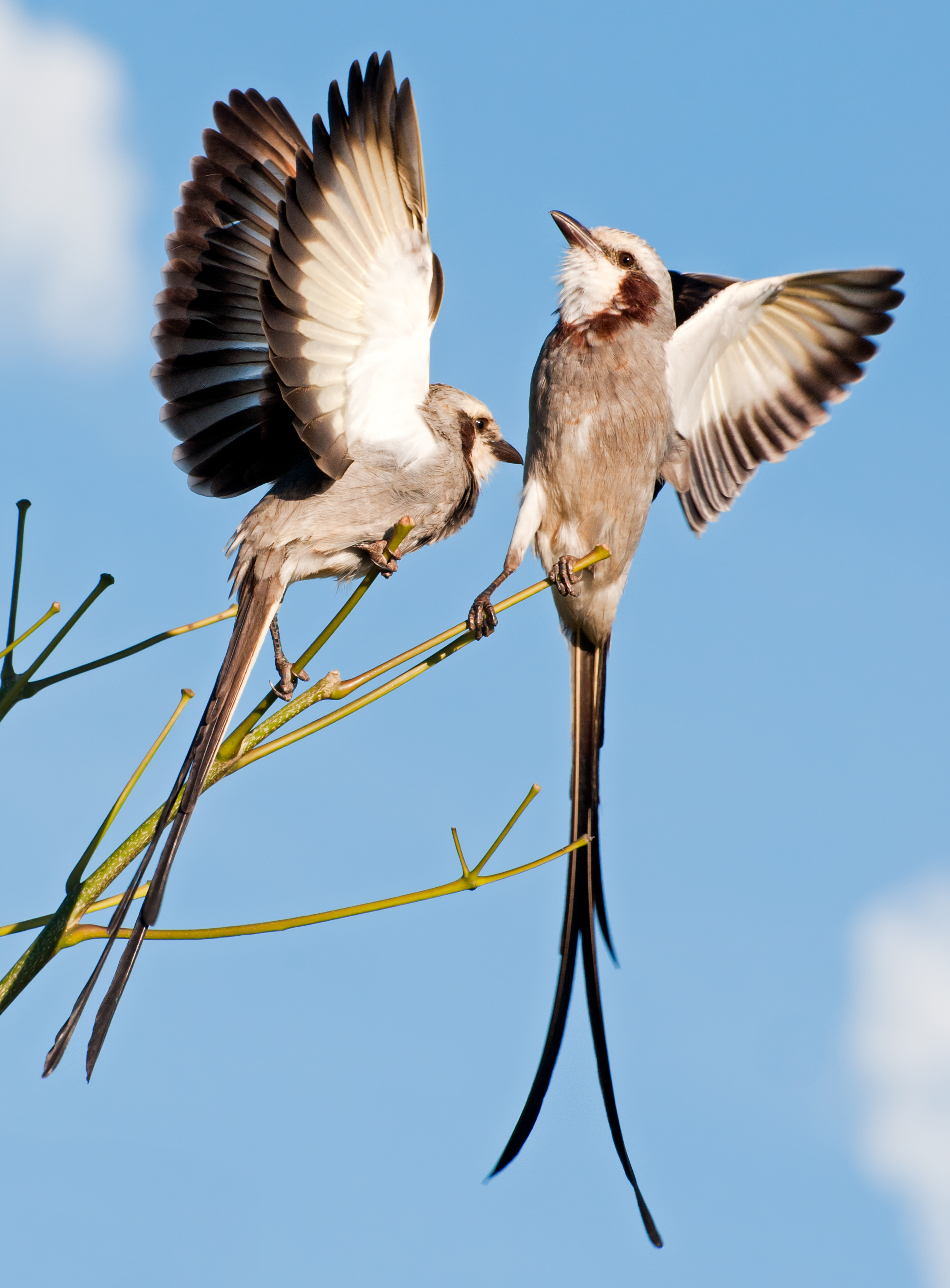 Two Streamer-tailed Tyrants in Piraju, São Paulo, Brazil.